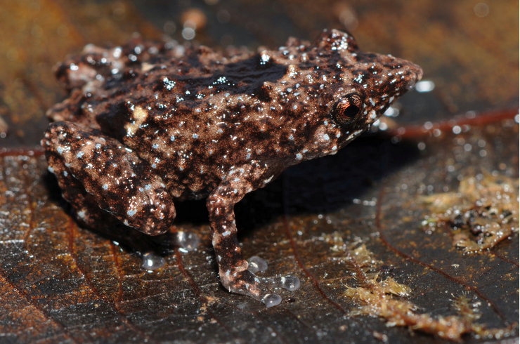 Choerophryne proboscidea hill forest forest, northern lowlands, scansorial